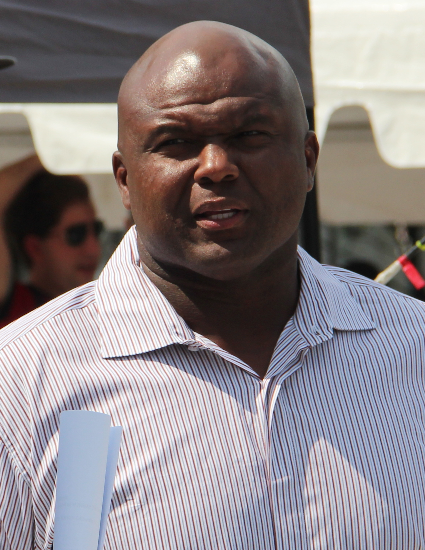 Jason Witten, Booger McFarland, Joe Tessitore at the 2018 SEC Summerfest